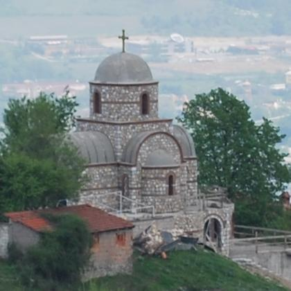 St. Elijah church in Gorno Nerezi, Macedonia